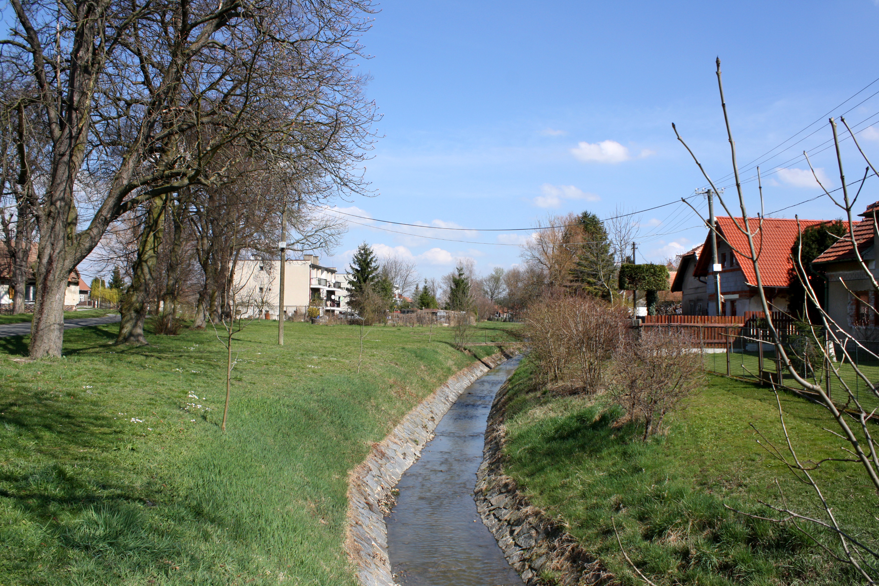 Záhornický creek in Kněžice, Czech Republic